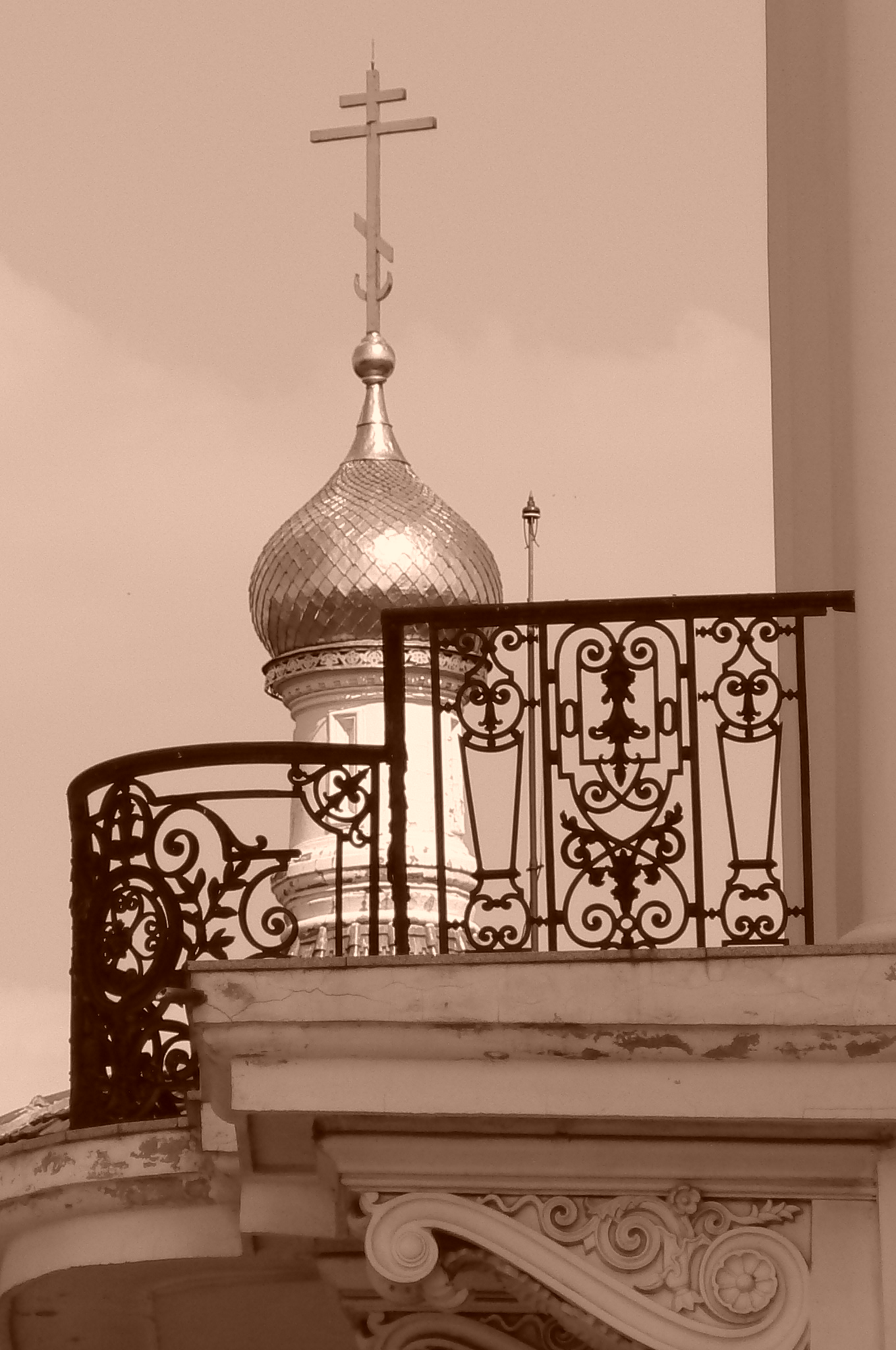 View to the dome of the Russian church, Sofia, Bulgaria